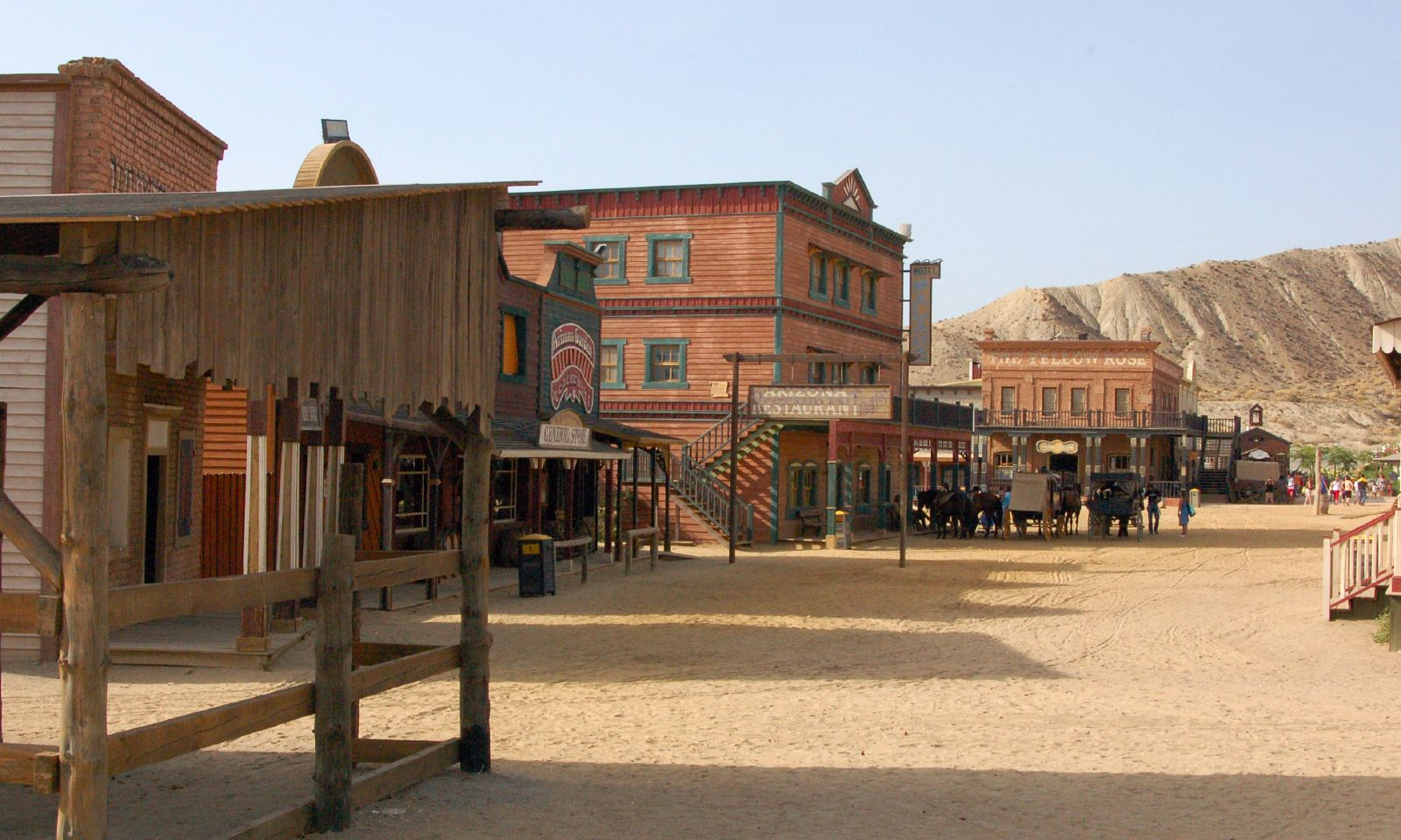 A look down the street of Mini Hollywood